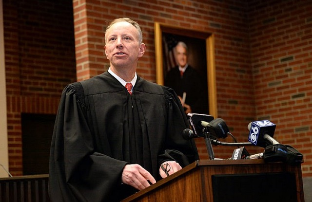 Photo of Saratoga County Court Judge, James A. Murphy III